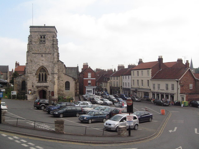 The Market Square, Malton